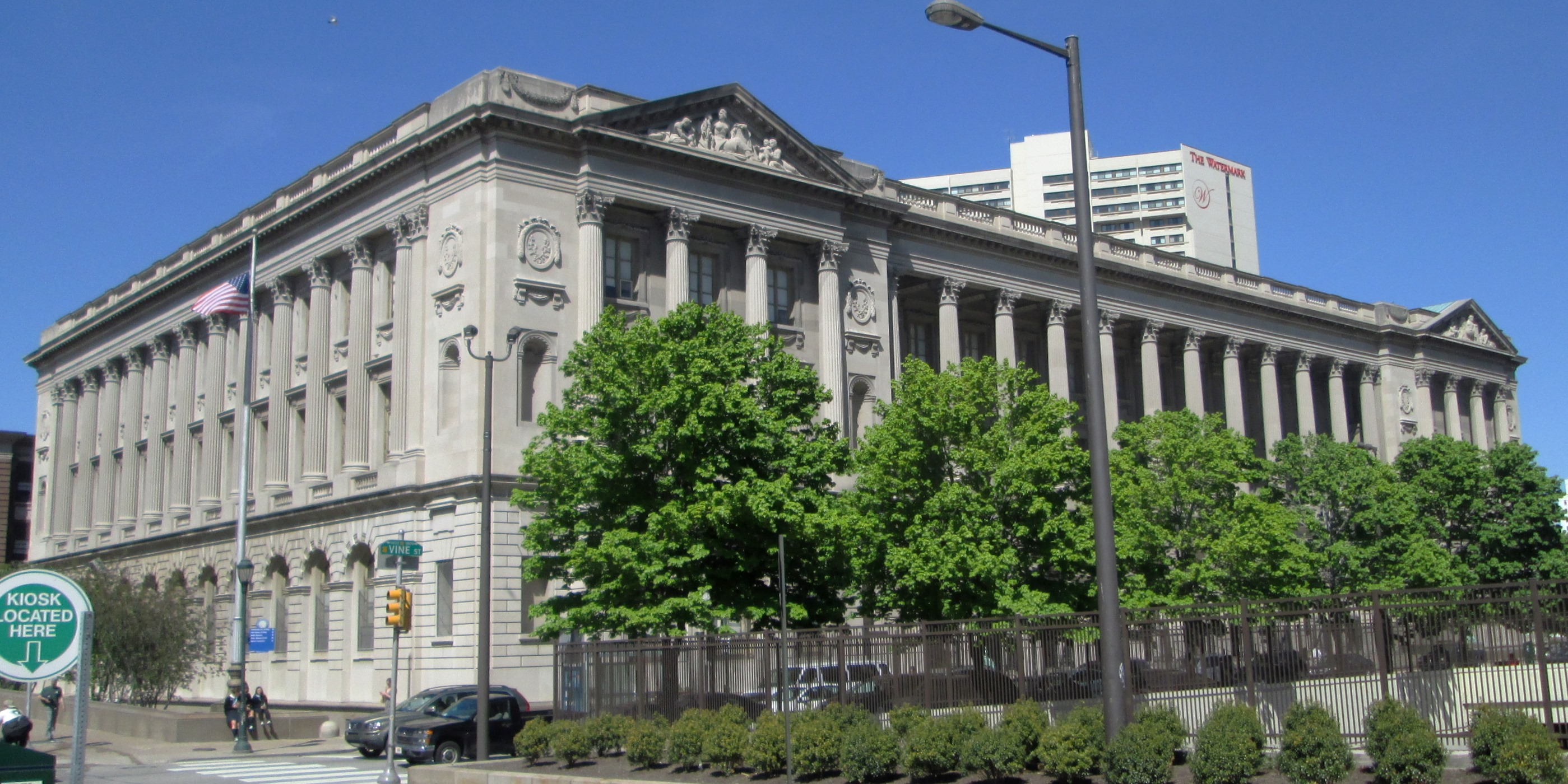 The Family Court Building at 1801 Vine Street between N. 18th, N. 19th and Wood Streets in the Logan Square neighborhood of Philadelphia was built in 1938-41 in the Neoclassical style and was designed by Morton Keast from 1931 plans by John T. Windrim. (Source: Architecture in Philadelphia: A Guide)